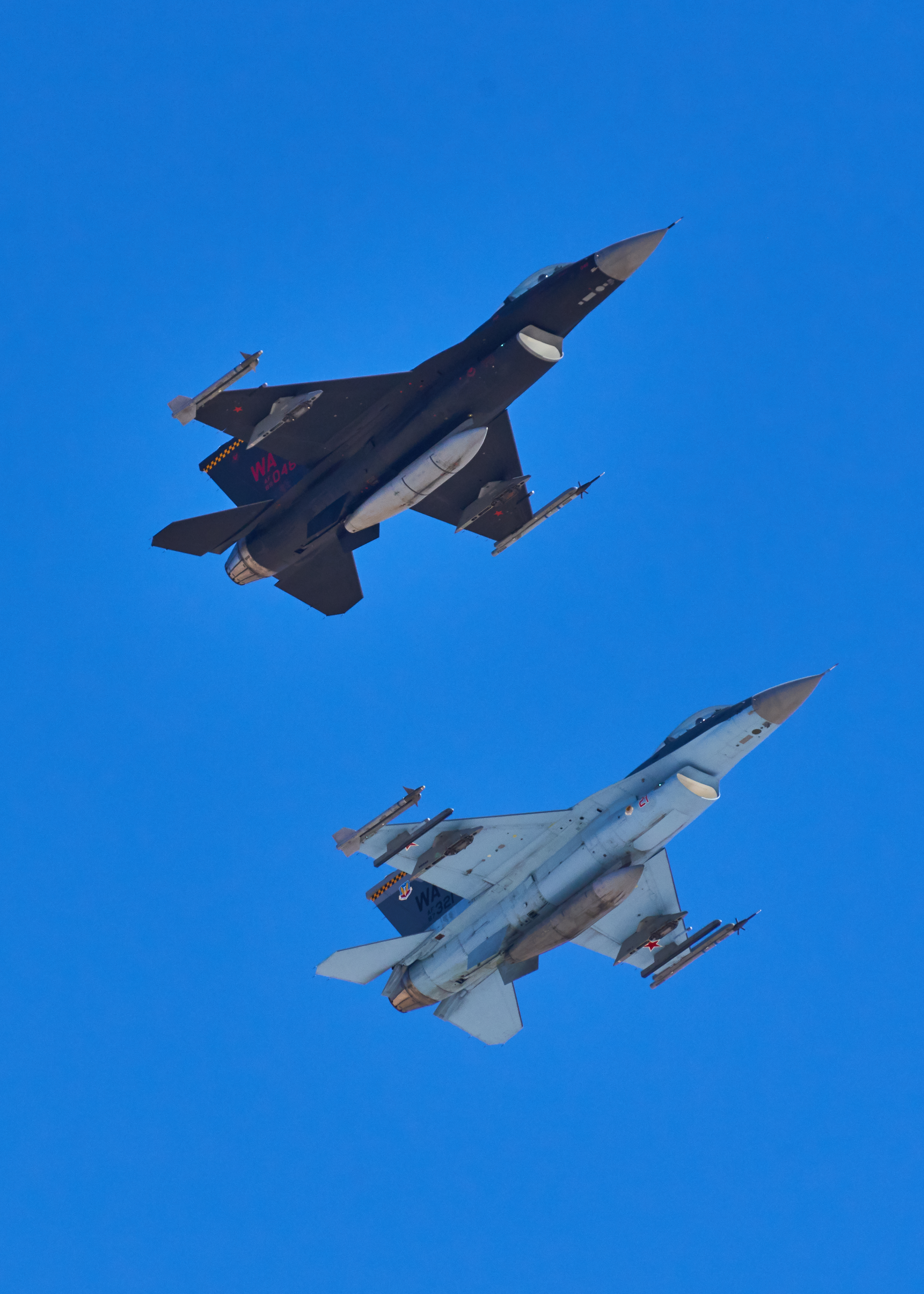 A pair of F-16s, part of the 64th Aggressor Squadron, participate in the Aviation Nation Airshow at Nellis Air Force Base in November, 2019.